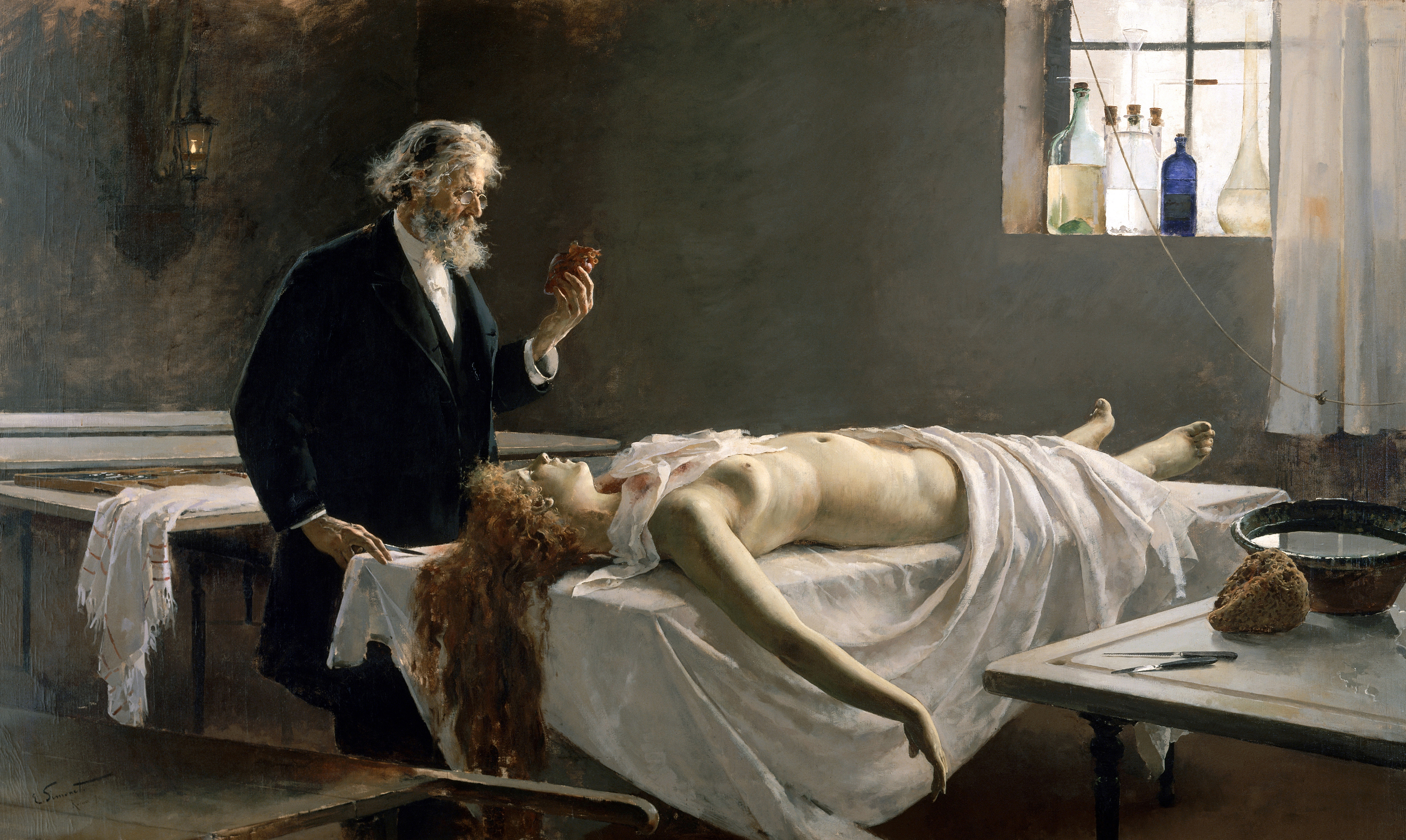 The work depicts a doctor, who is conducting an autopsy, looking at the heart of a young woman.